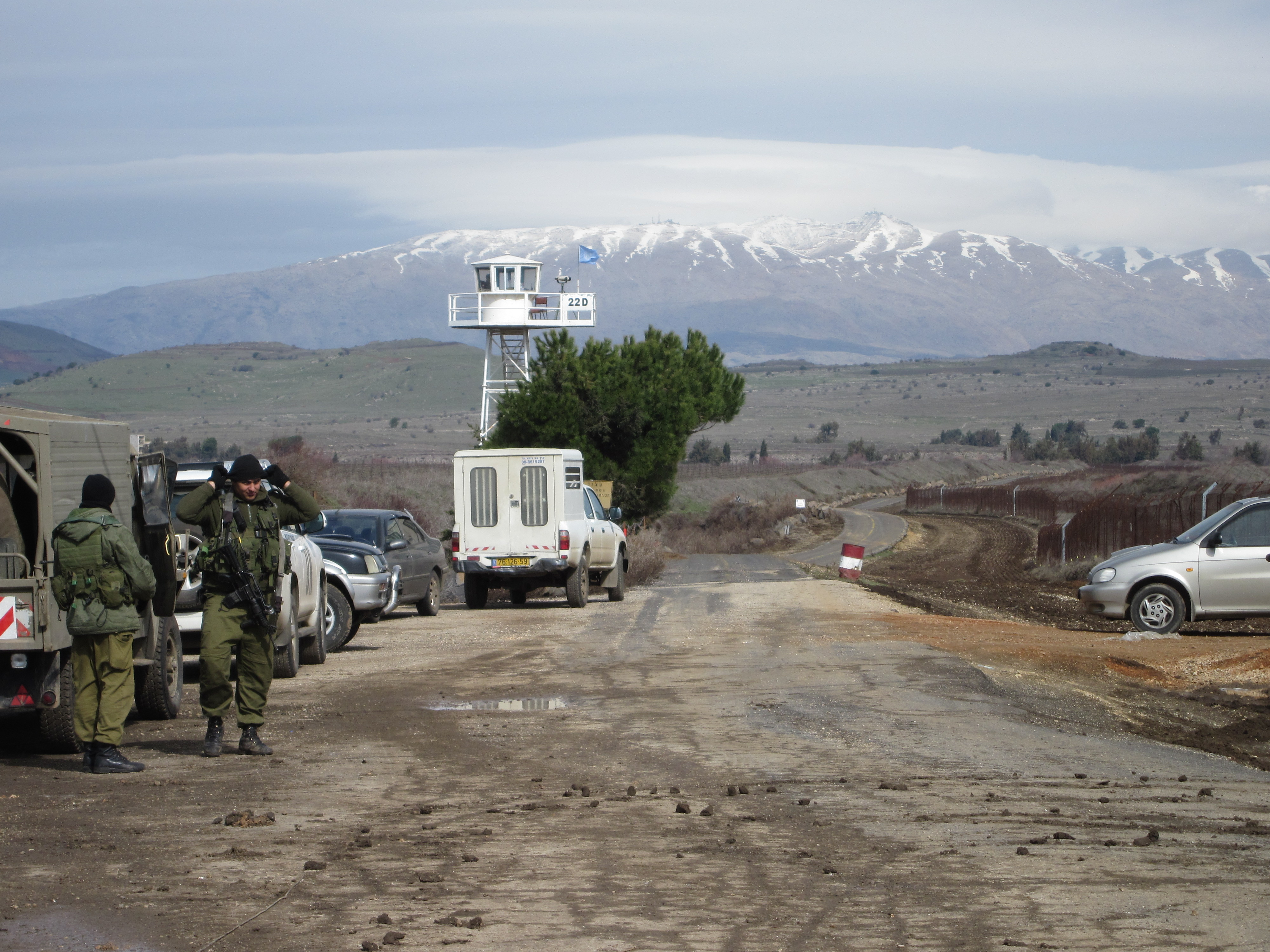 February 14, 2011. Apples grown by Israeli civilians in the Golan Heights being exported to Syria via the “Quneitra” crossing, in an annual exchange directed by the Israeli government and at the request of the International Red Cross (IRC). 30 trucks, carrying 12,000 tons of apples will cross into Syria every day over the span of several weeks. 2011 marks the sixth consecutive year in which Israel-grown apples are exported to Syria, and since the beginning of the project the amount of apples exported from Israel has doubled. For more details, see our blog.